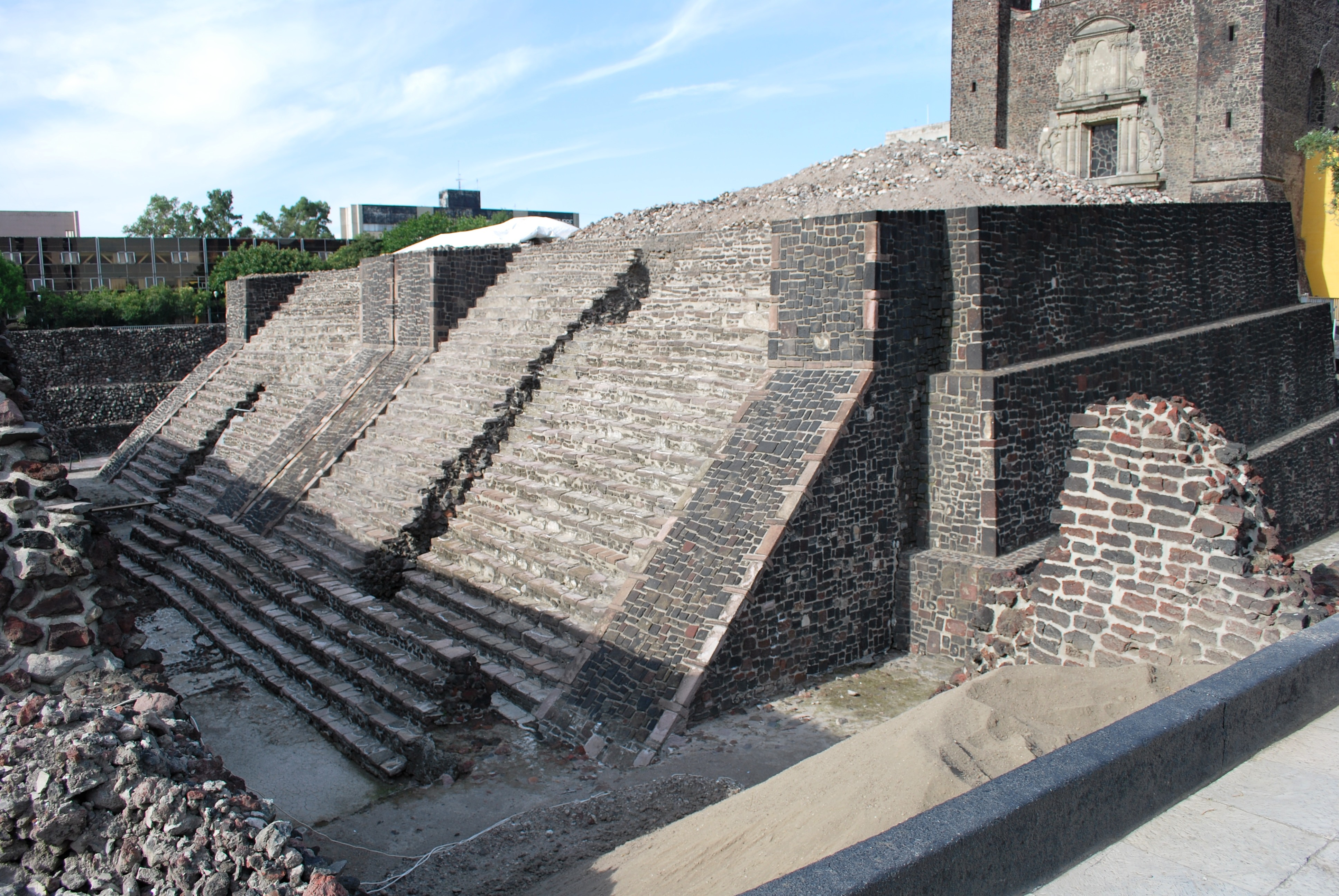 Main temple, second stage in the center of the Tlatelolco archeological zone in Mexico City